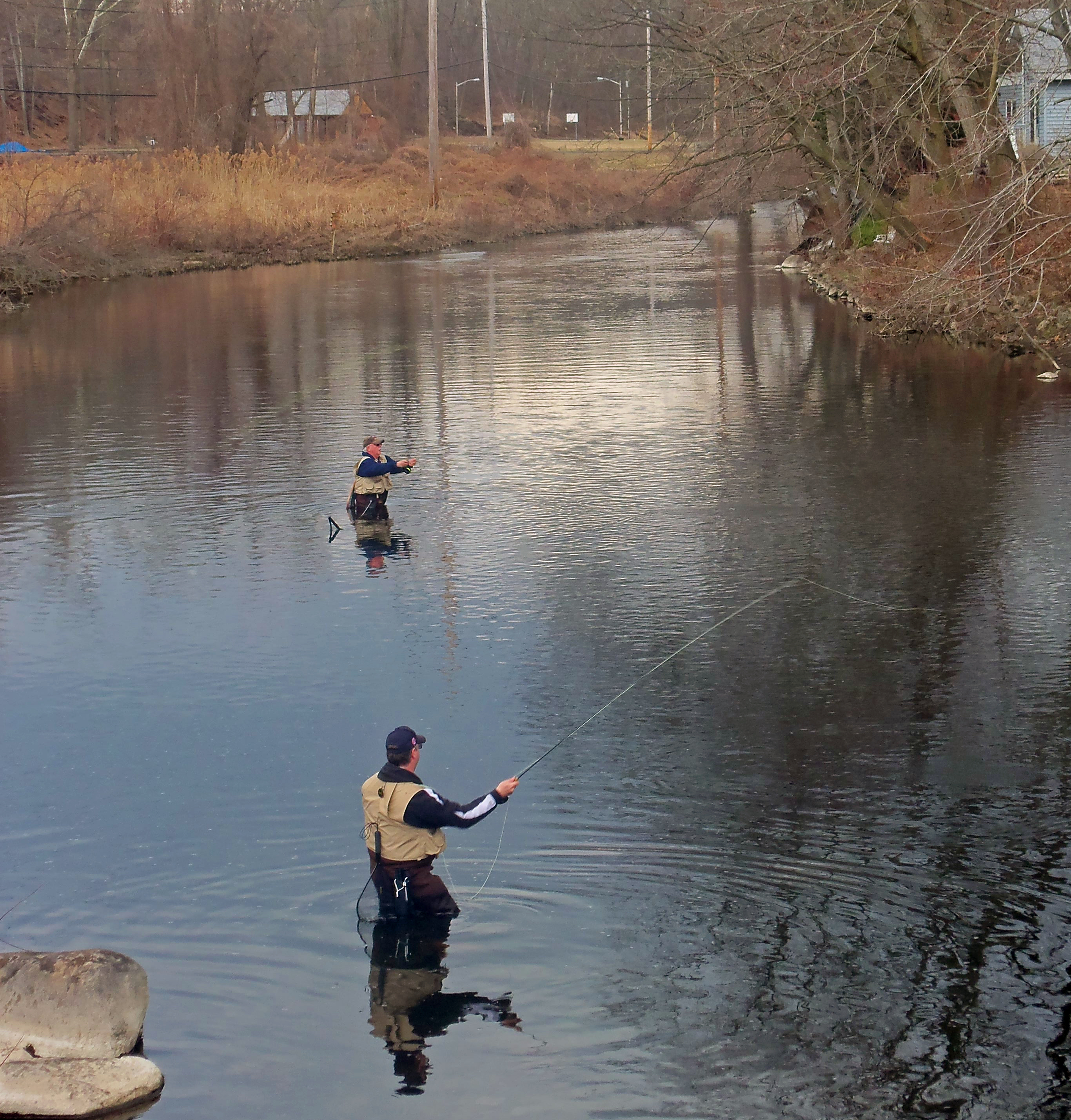 Fly fisherman casting for trout on the Ramapo River at Tuxedo, NY, USA, on the opening day of the season in New York.